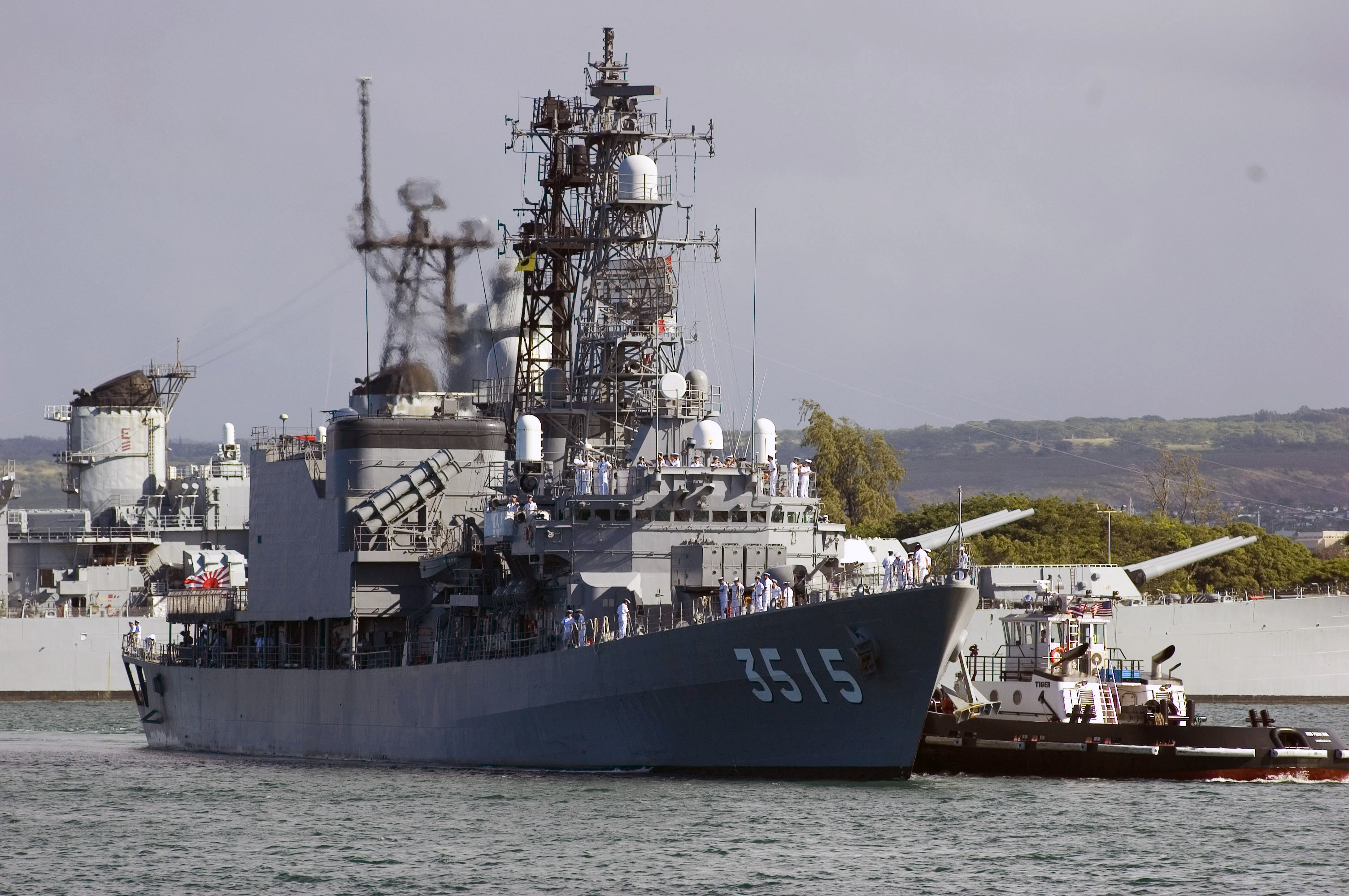 The Japanese Maritime Self Defense Force ship (JMSDF) JDS Yamagiri (TV 3515) passes the USS Missouri memorial. Several other JMSDF training ships, JDS Kashima (TV 3508), JDS Amagiri (DD 154) and JDS Yamagiri (TV 3515) pulled into Pearl Harbor for a port visit part of a world-wide training and international relations cruise.